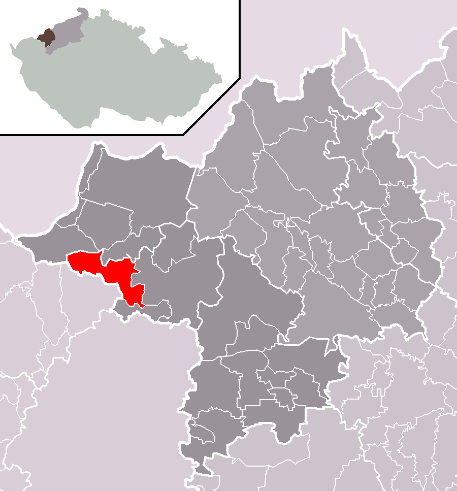 Location of Perštejn municipality within Chomutov District and administrative area of Kadaň as a Municipality with Extended Competence.